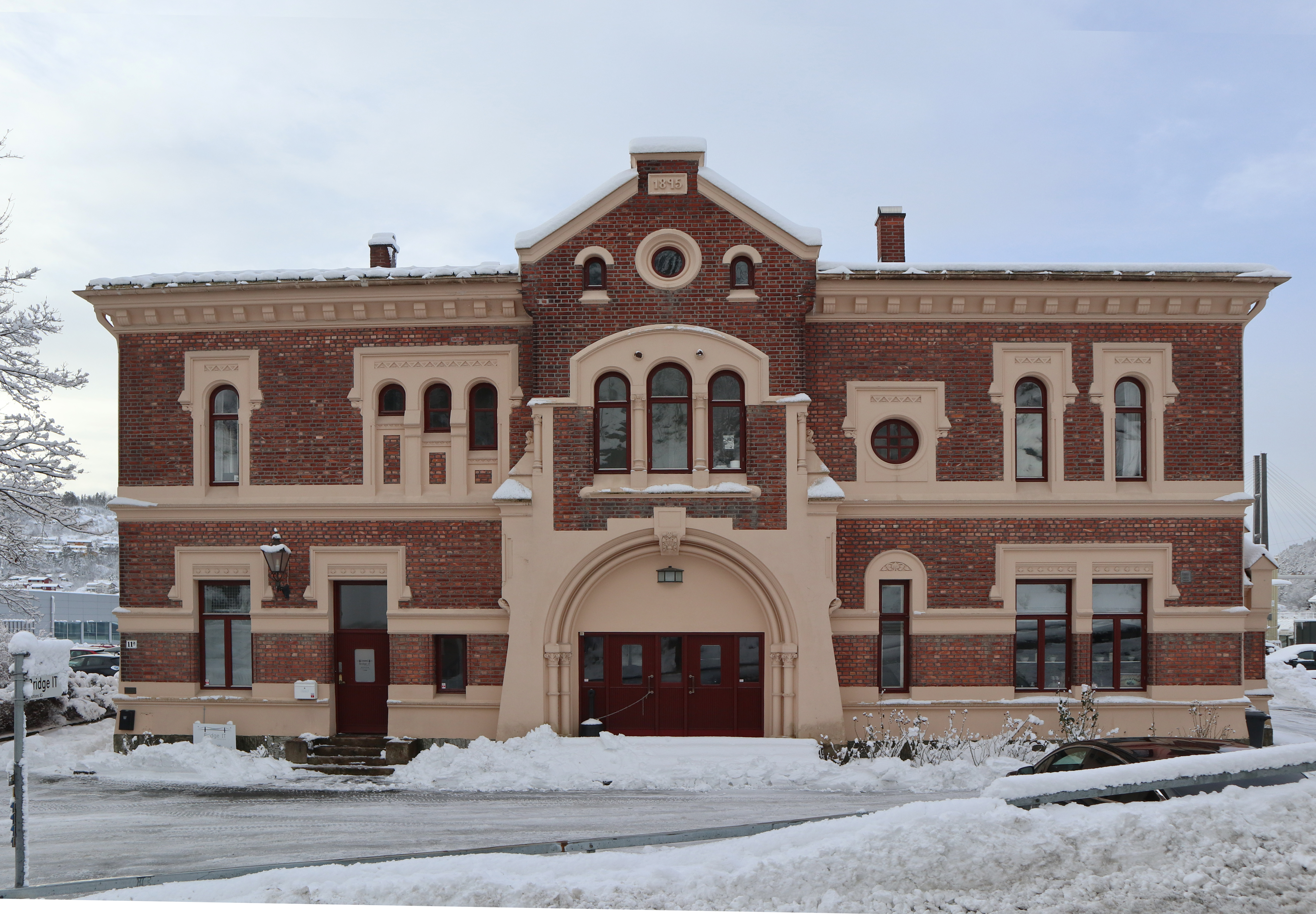 Railway Station Brevik 1895